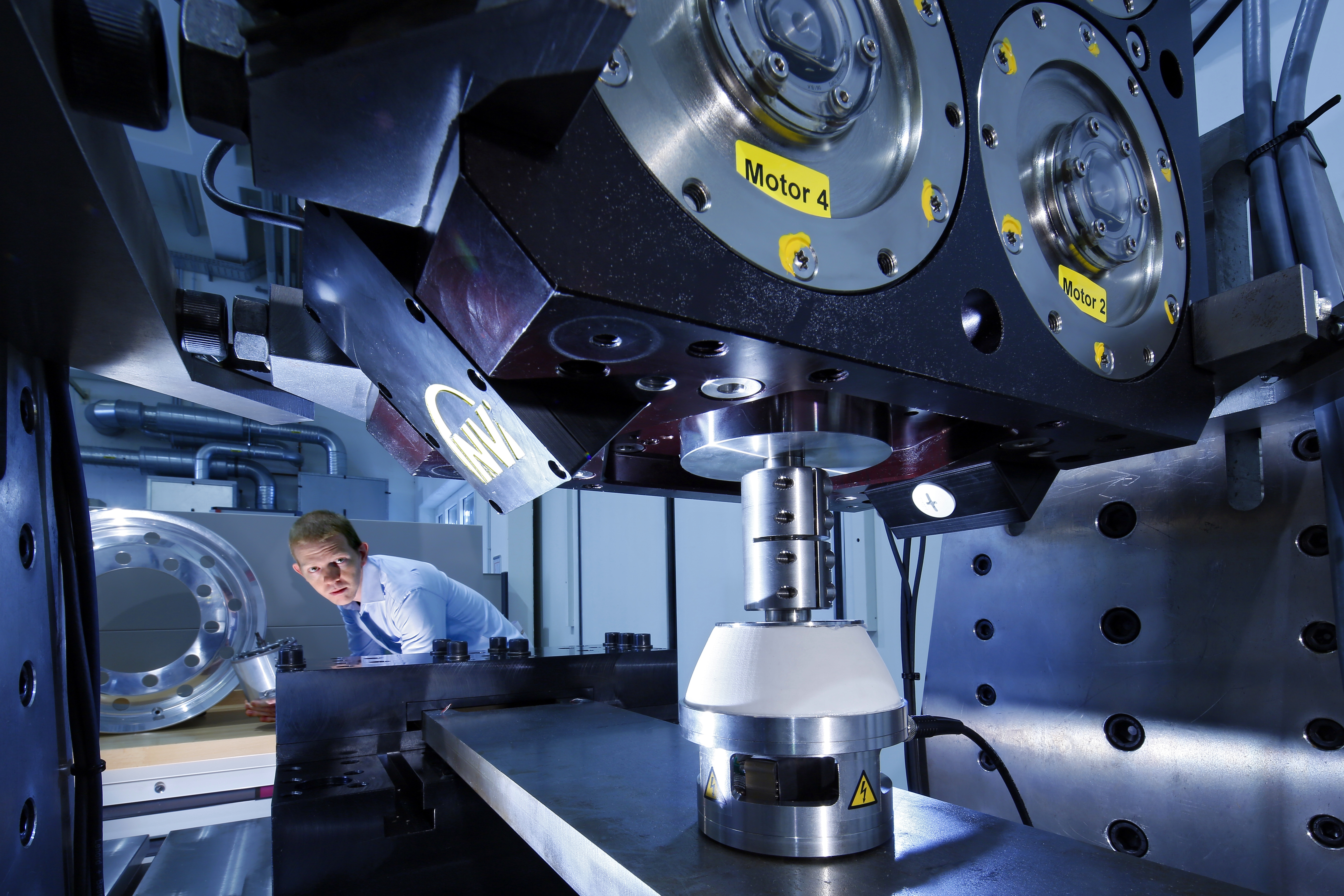 Test bench for active vibration control at the Fraunhofer Institute LBF. A piezo driven active engine mount cancels the vibration resulting from several motors on top of the Mount by inducing countervibrations. Picture is taken at the "Fraunhofer Transferzentrum" in Darmstadt, Germany. Person in the photo is Roman Kraus.